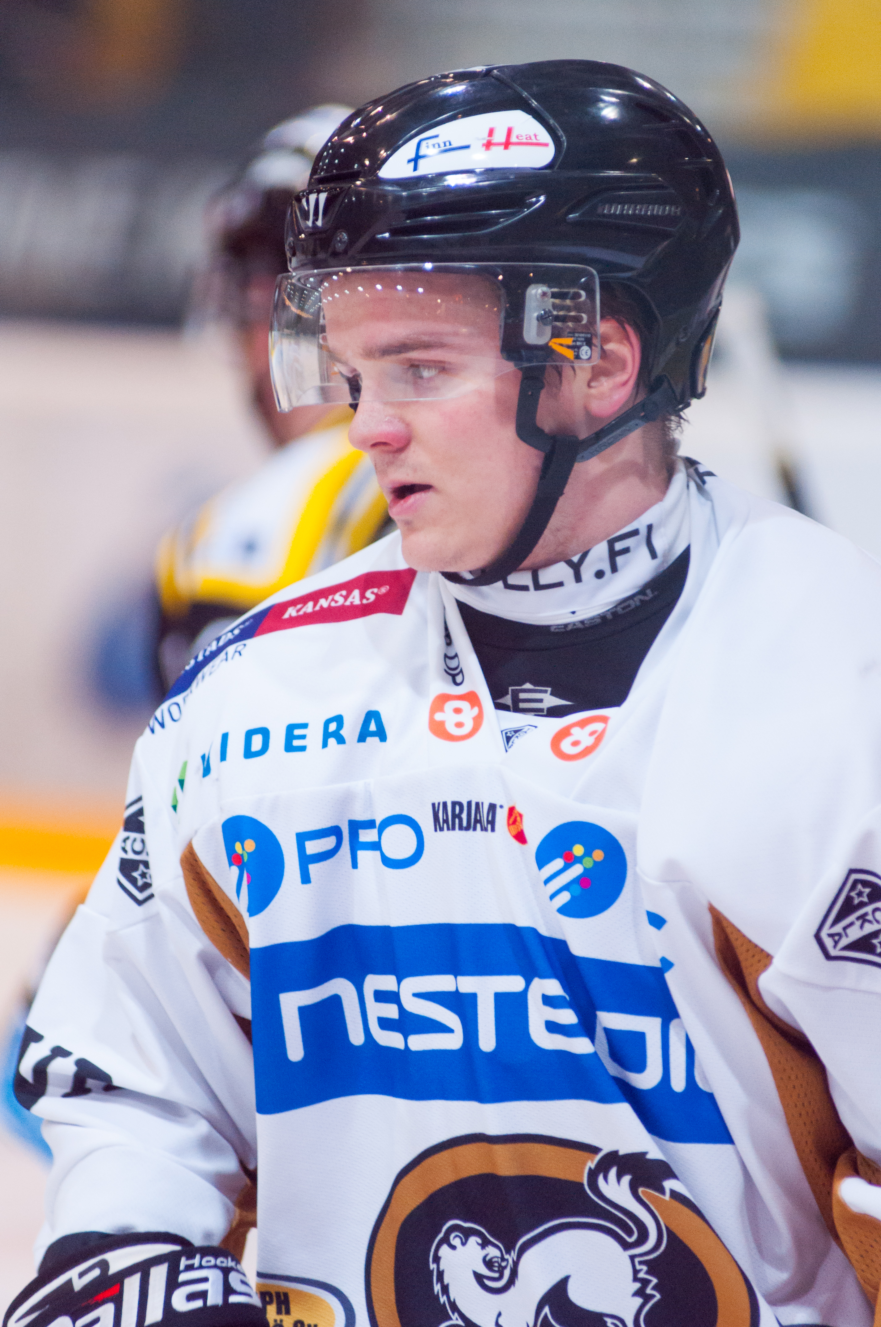 Julius Junttila of Oulun Kärpät playing against SaiPa Lappeenranta in Lappeenranta, Finland.